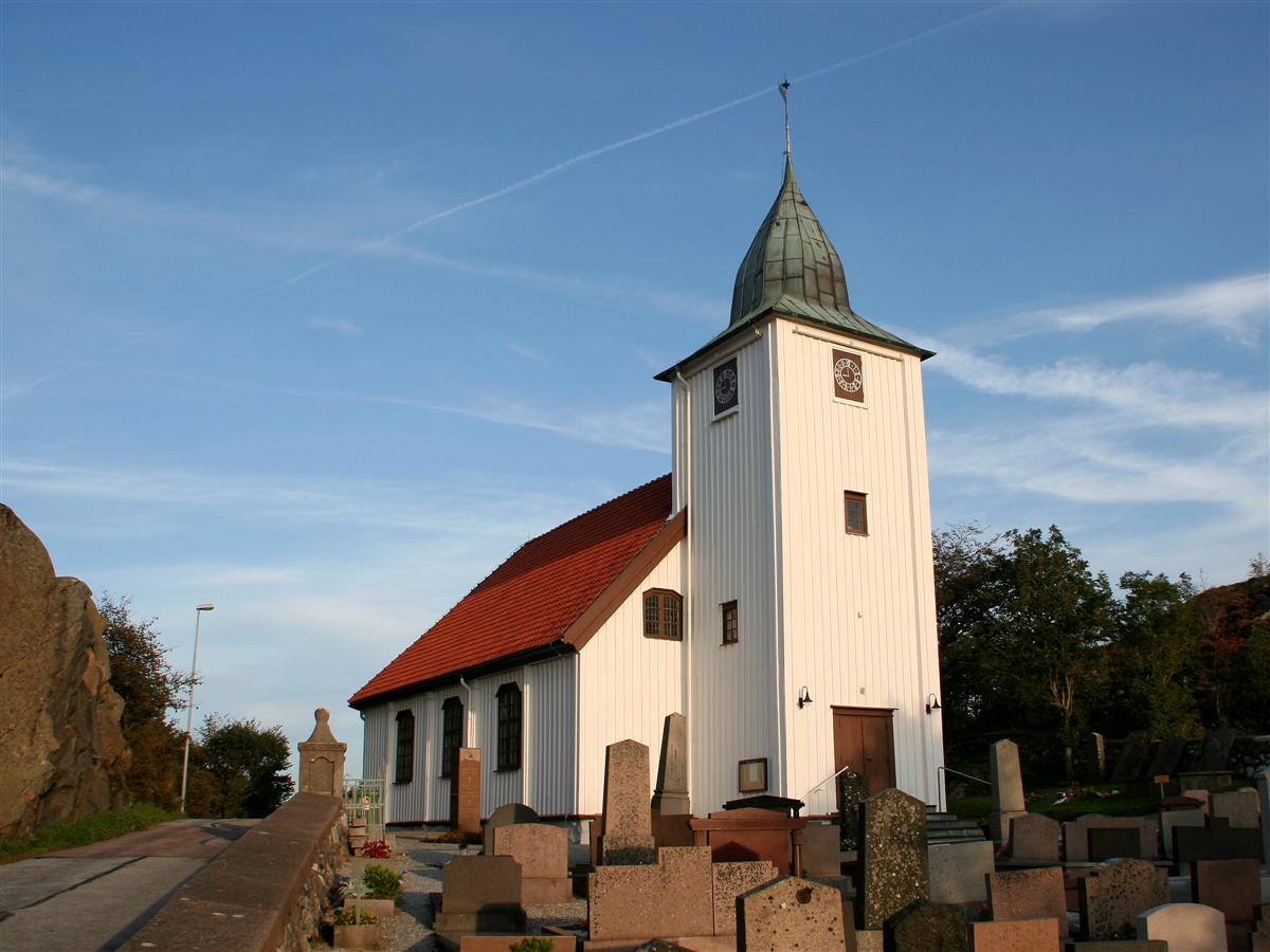 Rönnäng Church